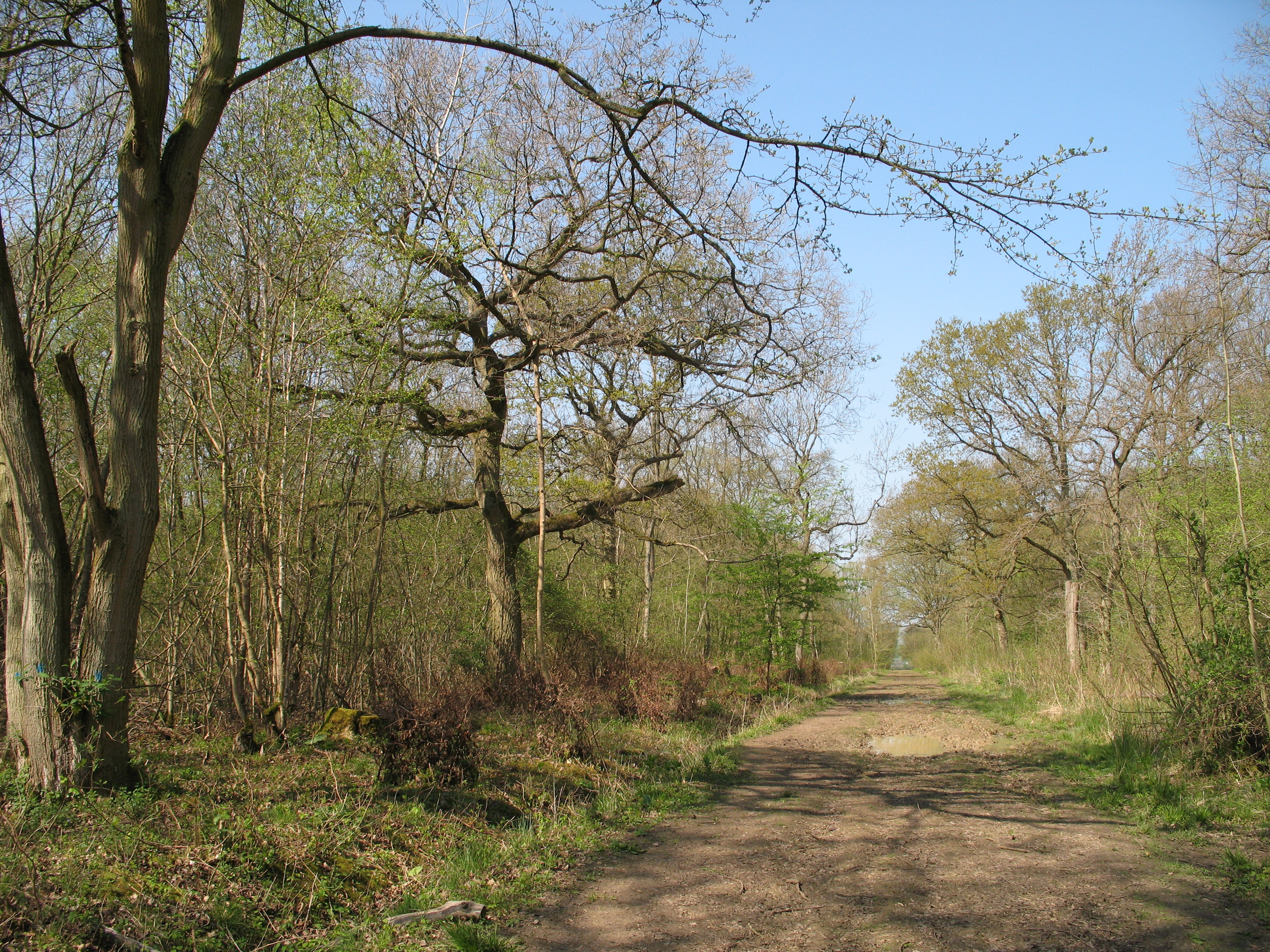 Main ride at Waresley Wood, Cambridgeshire